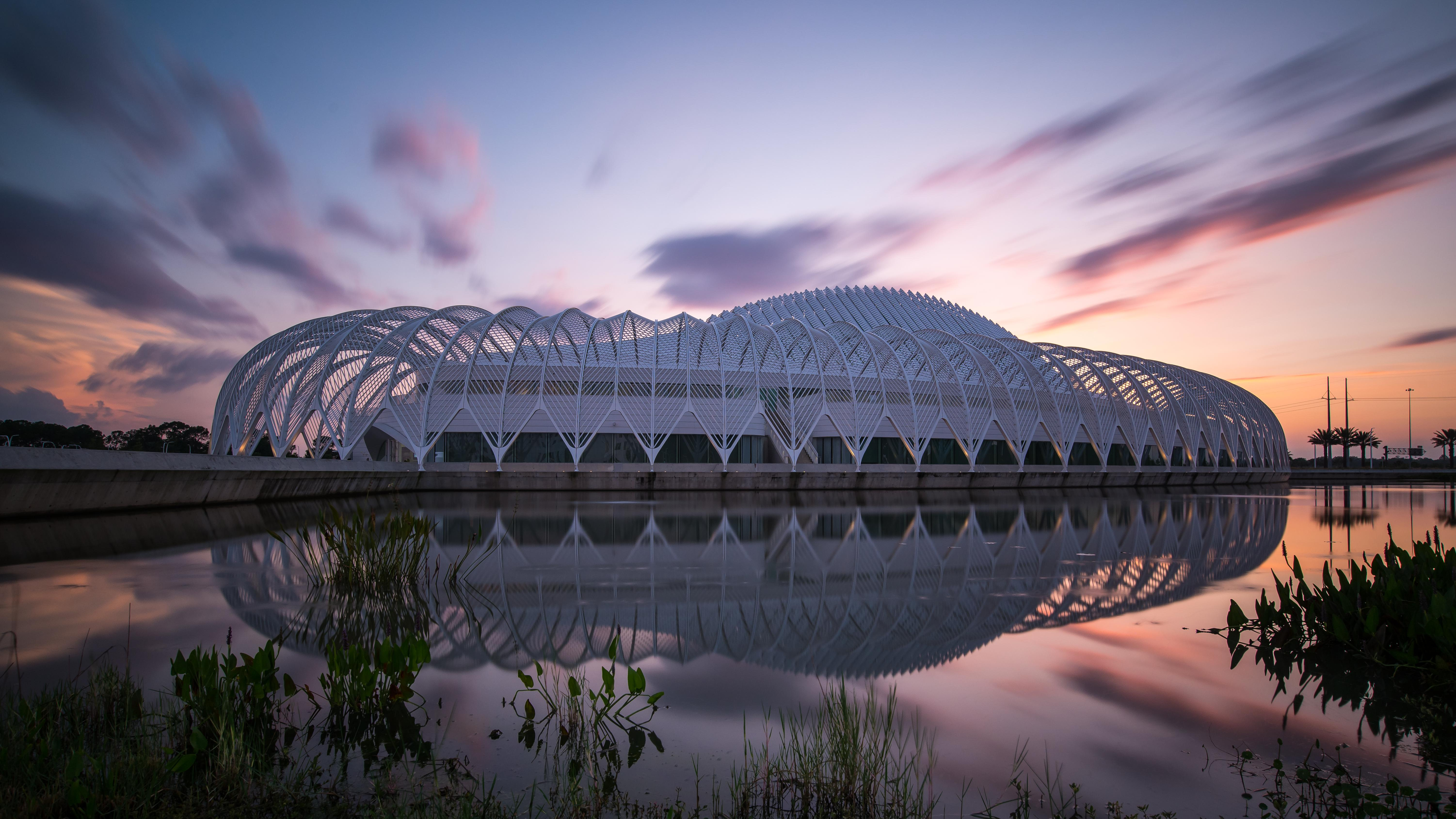 Long exposure photograph taken of the Florida Polytechnic buildning designed by architect Santiago Calatrava at sunset.